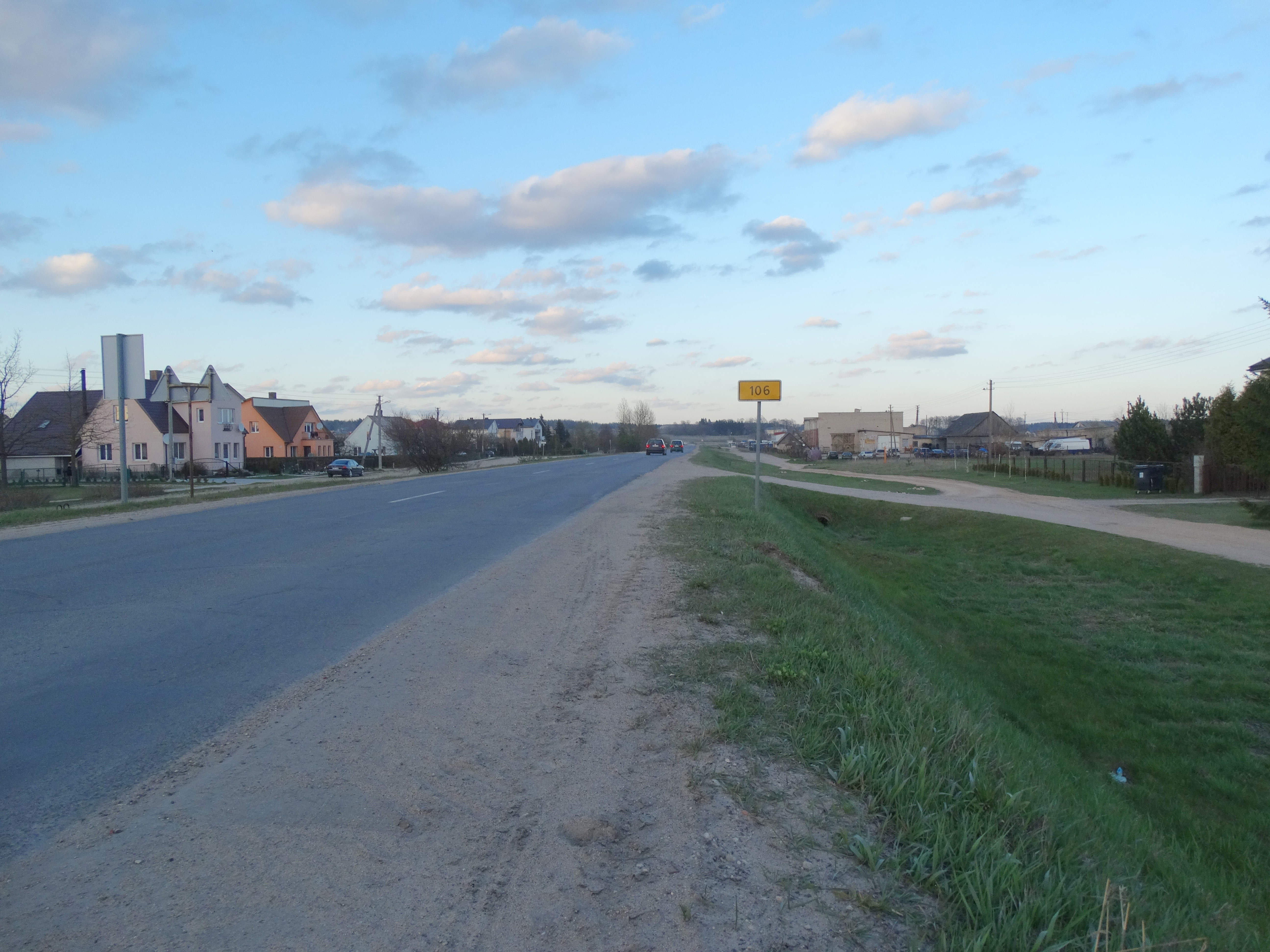 Regional road 106, Vilnius district, Lithuania